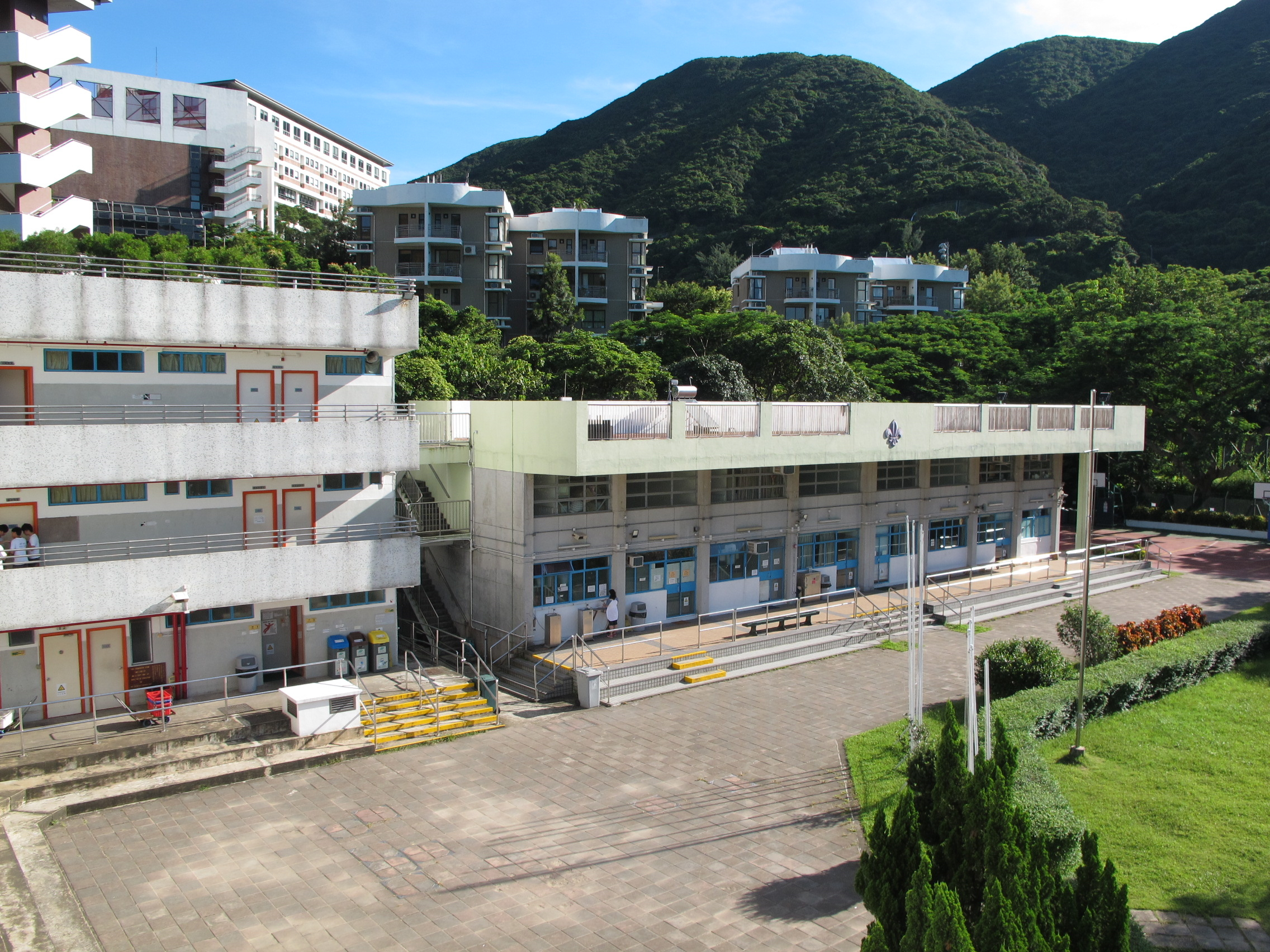 Tai Tam Scout Centre